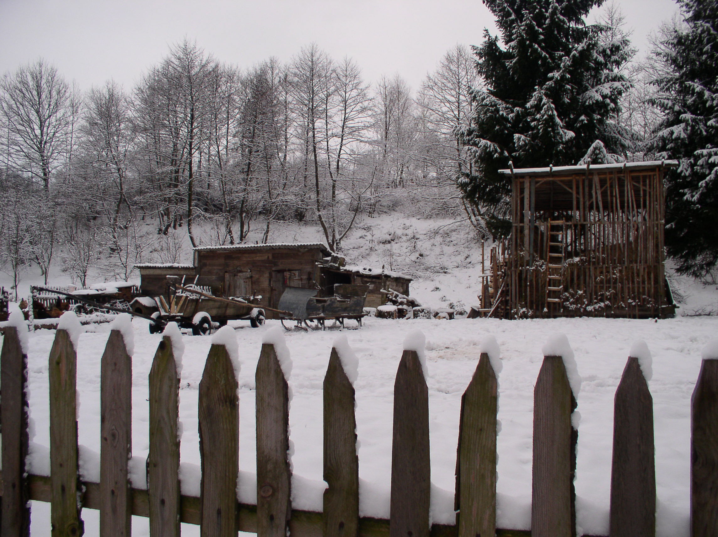 З Богом працю починайте і все вперед поступайте.